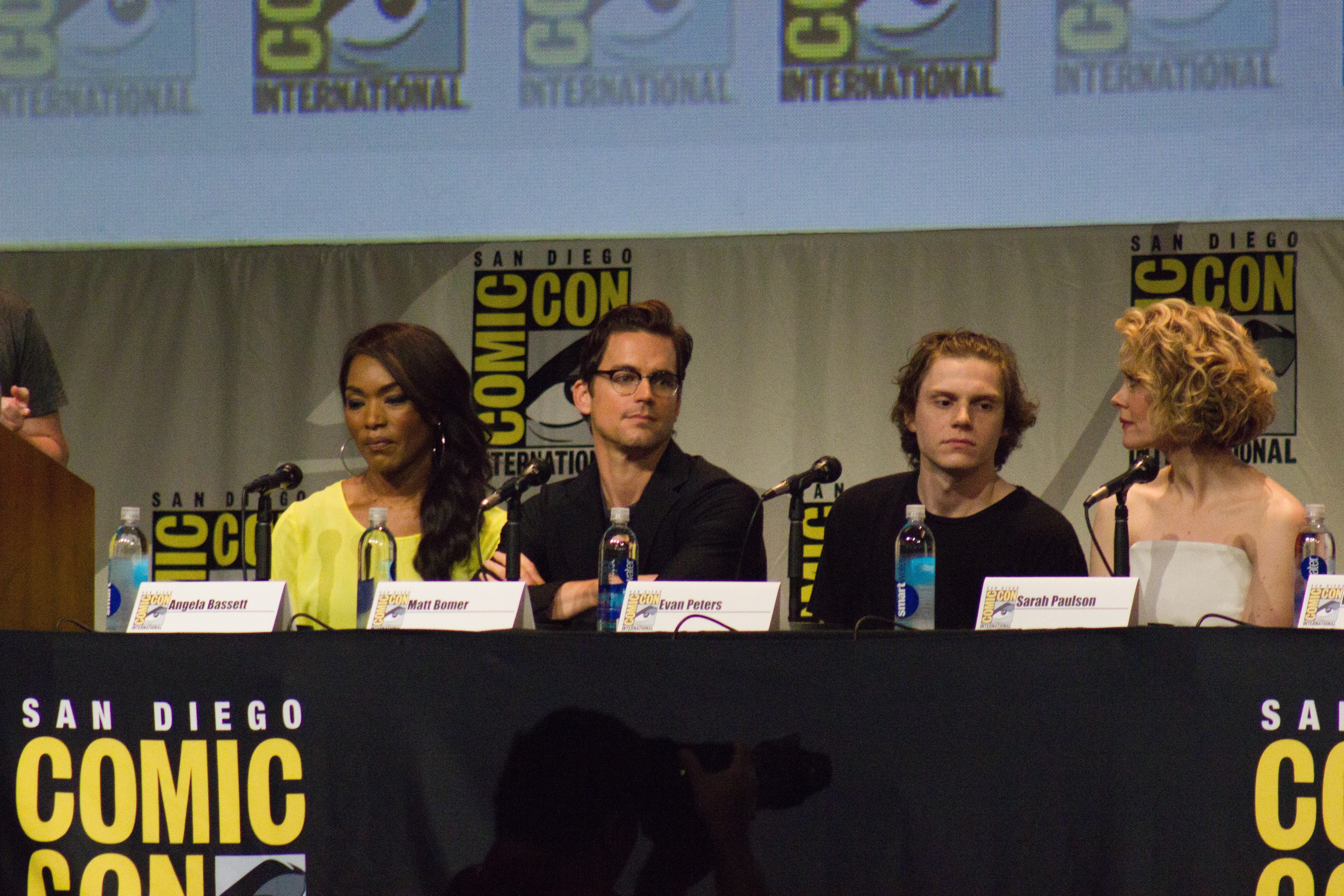 American Horror Story Taken at the 2015 Comic-Con International in San Diego.